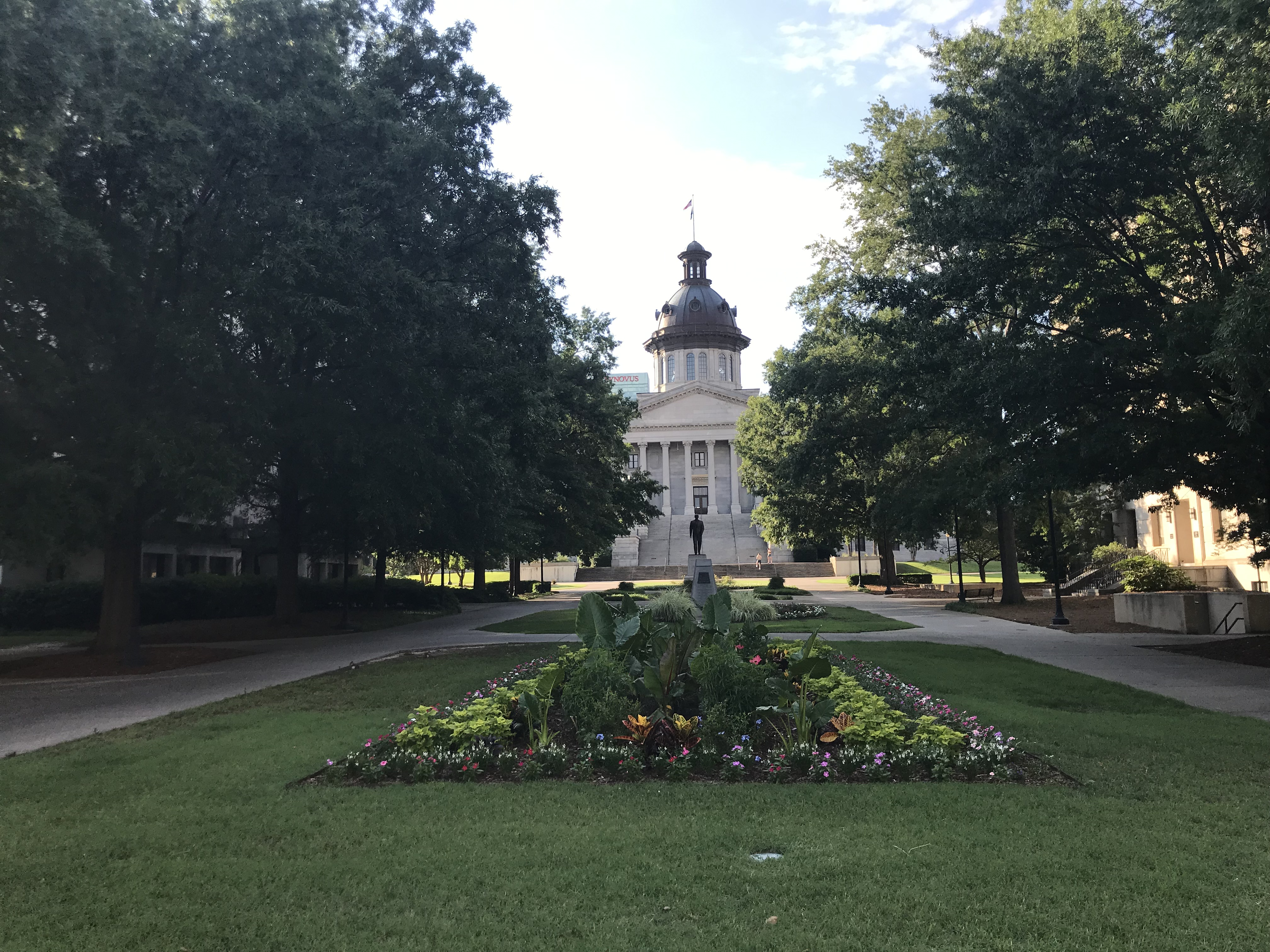 Columbia, SC Capitol grounds (Southside)